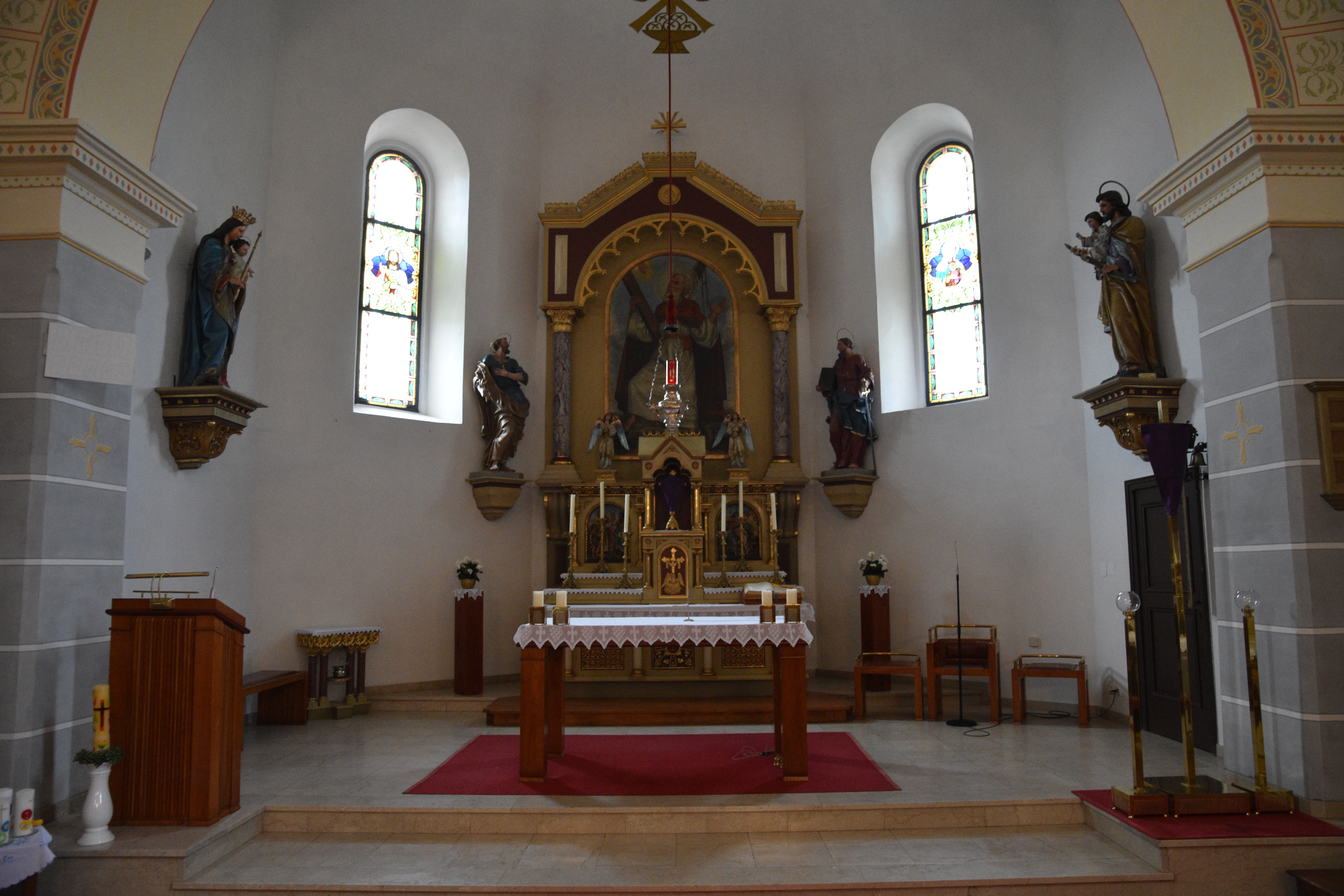 Saint Andrew Church (Draßmarkt) - Interior